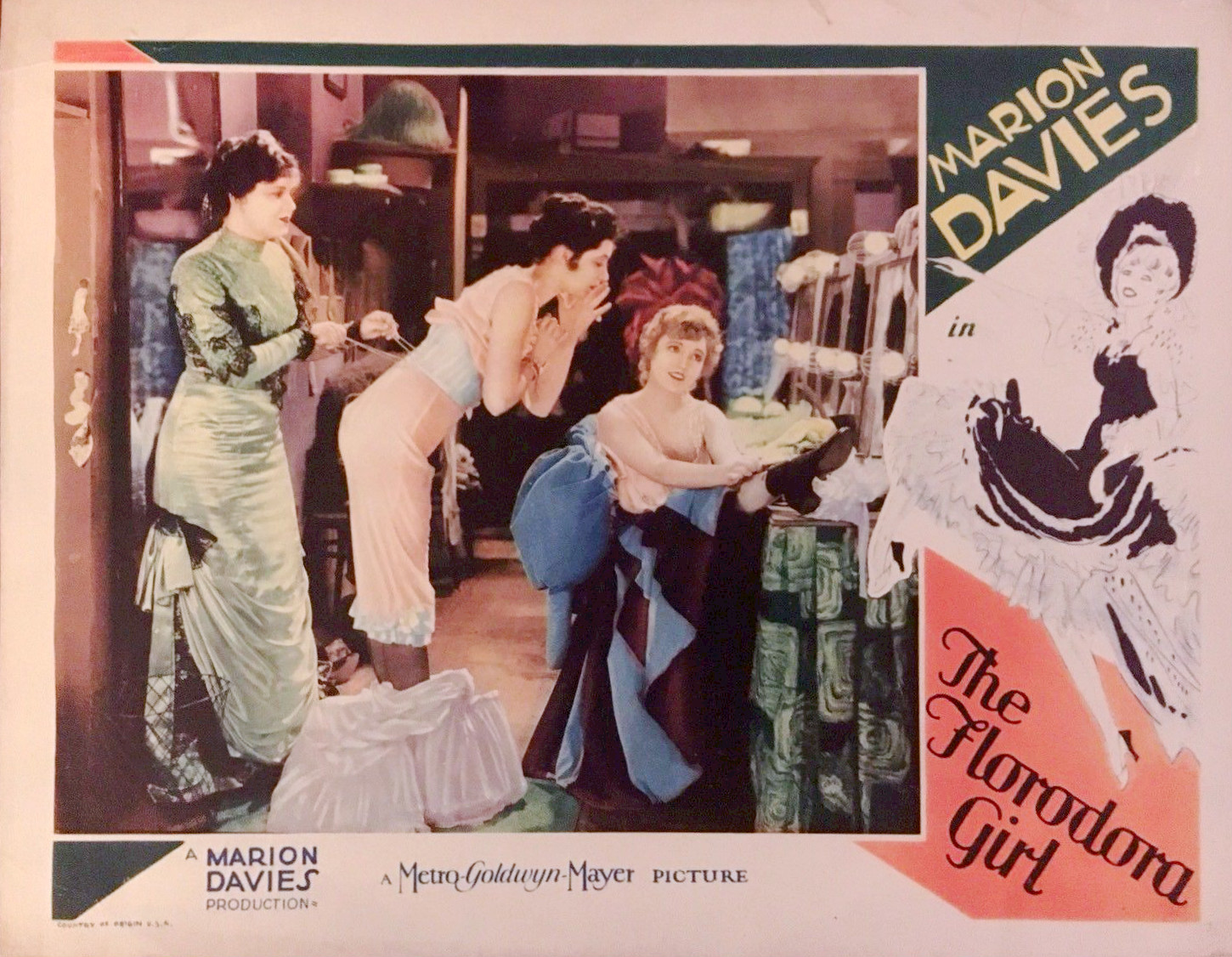 Lobby card for the 1930 film The Floradora Girl.